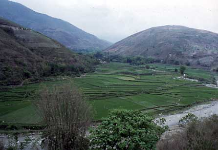 pic of the red river as it flows between honghe and yuanyang, yunnan province, china.